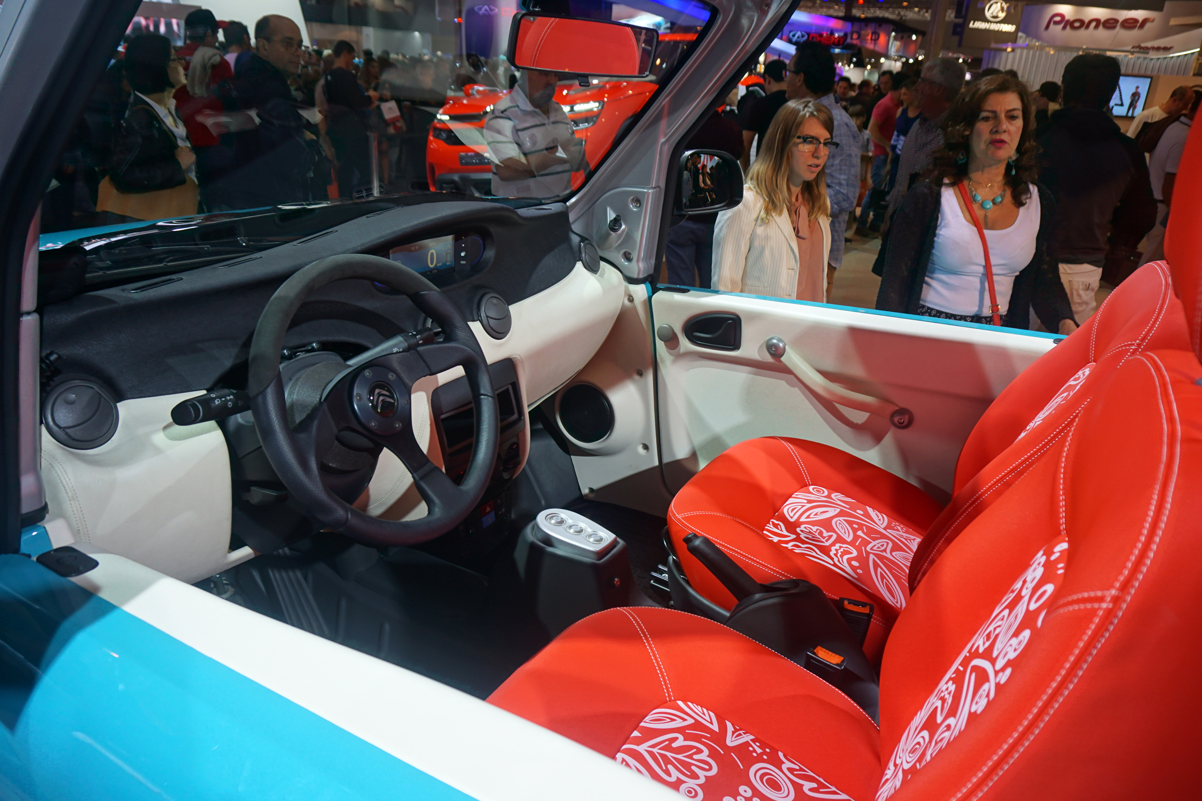 Citroën E-Mehari all-electric car exhibited at the Salão Internacional do Automóvel 2016 São Paulo, Brazil.